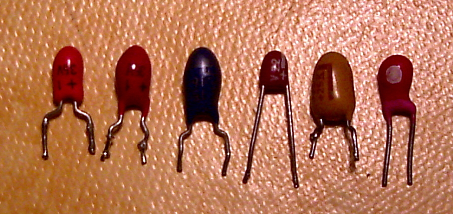 A selection of tantalum capacitors